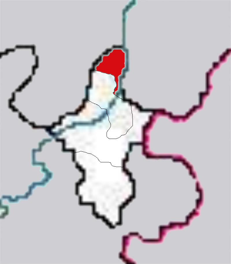 Maps of Ningxia Autonomous Region of China: Shizuishan City